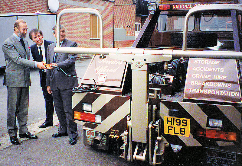 HRH Prince Michael of Kent names one of National Rescue's vehicles "The Spirit of Brooklands". Present also is Andy Lambert FIVR (Right) Managing Director of The National Rescue Group and fellow director Geoff Lambert. The picture was taken in 1992, near the National Rescue Brooklands Head Quarters.